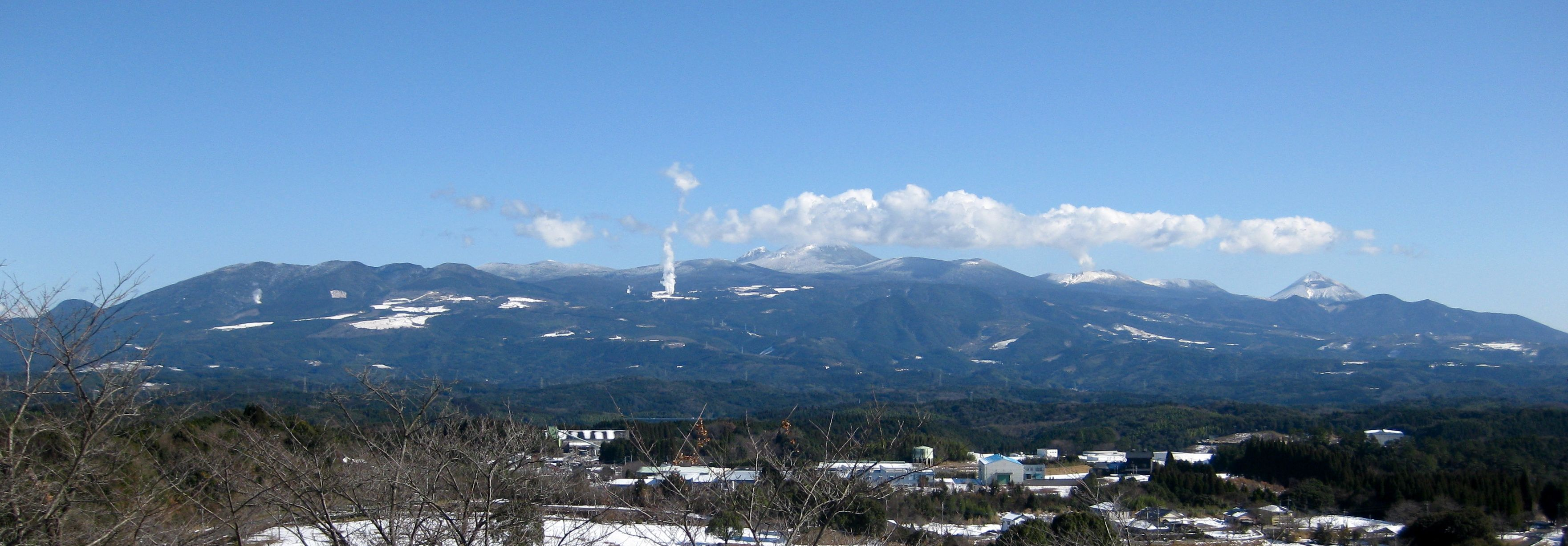 Kirishima Mountains from Maruoka of Yokogawa in Kagoshima, Japan